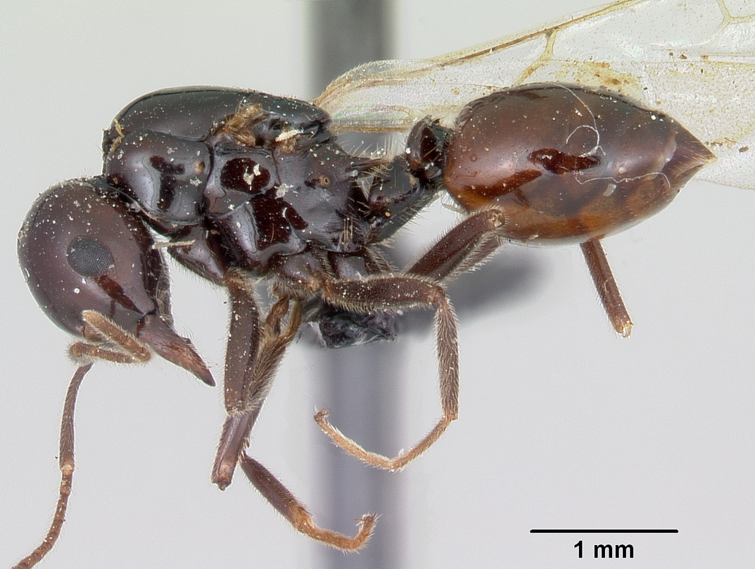 Profile view of ant Crematogaster emmae specimen casent0101664.